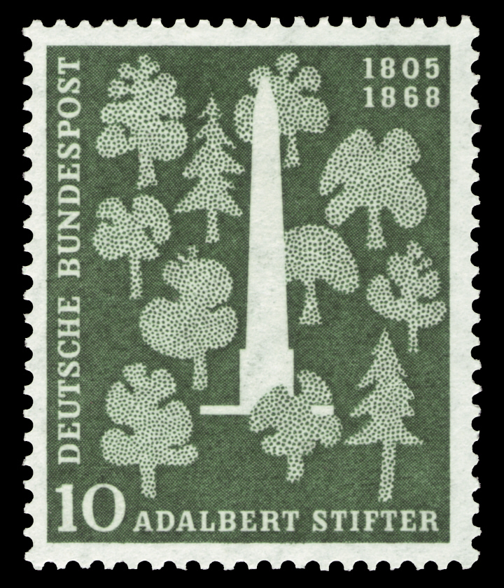 150th day of birth of Adalbert Stifter (1805-1868) Graphics by Stankowski Ausgabepreis: 10 Pfennig First Day of Issue / Erstausgabetag: 22. Oktober 1955 Michel-Katalog-Nr: 220